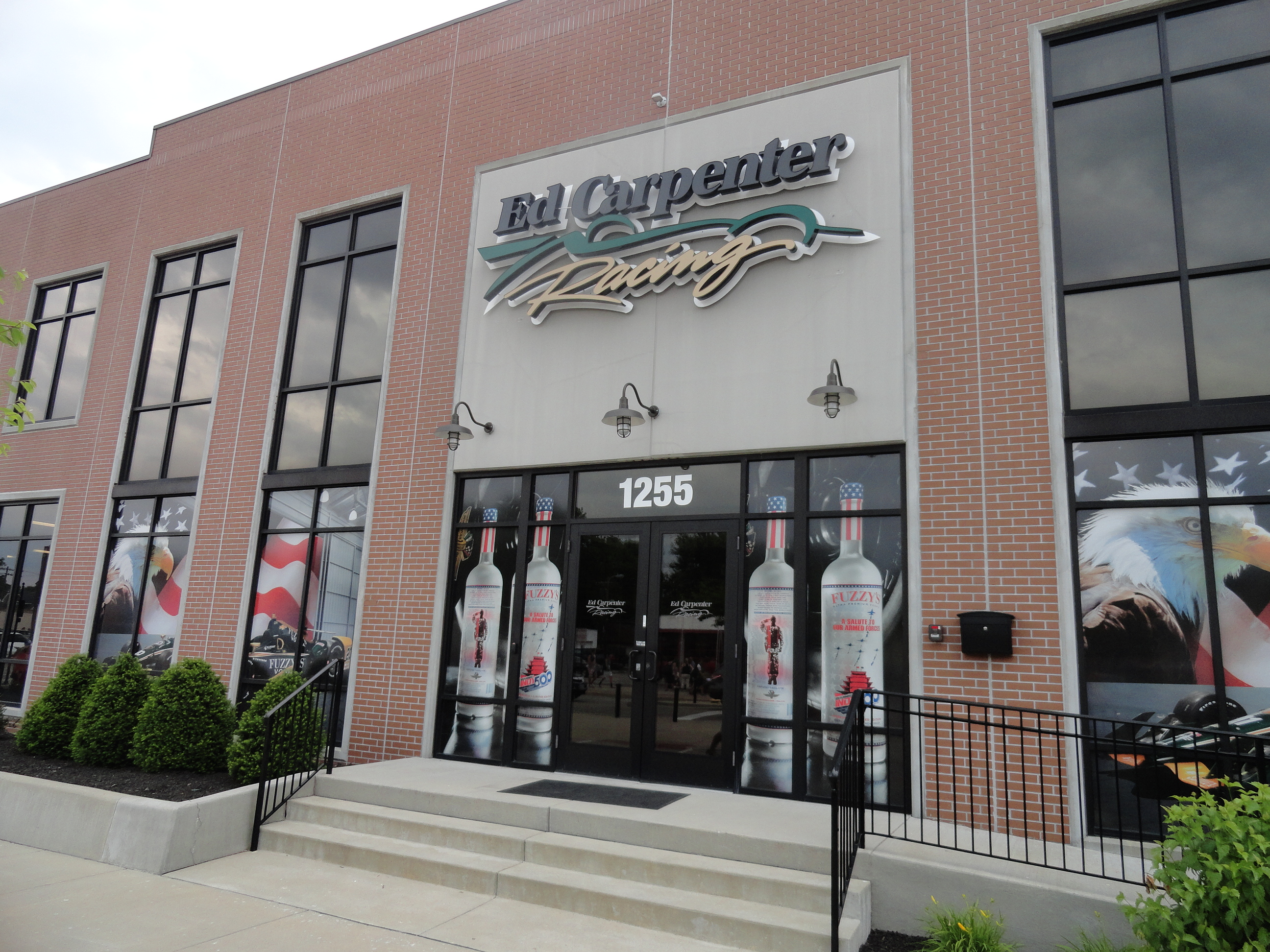 Ed Carpenter Racing headquarters in Speedway, Indiana, United Estates